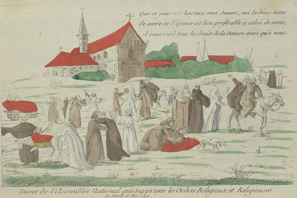 Library of Congress description: "Print shows monks and nuns enjoying their new found liberty, some are loading possessions onto horses and wagons, some embrace, one couple kisses while another rides off together on horseback." Translation: "Decree of the National Assembly which dissolved all orders of monks and nuns. Tuesday, February 16, 1790. How happy is this day, my sisters! Yes, the peaceful names of "mother" and "wife" are much preferable to that of "nun", they give you all the Rights of Nature, thus to us." The speaker is a former monk, addressing the former nuns. The humor of the original derives from the deliberate ambiguity about whether the monk is talking about his being given the Rights of Nature, or the nuns themselves.